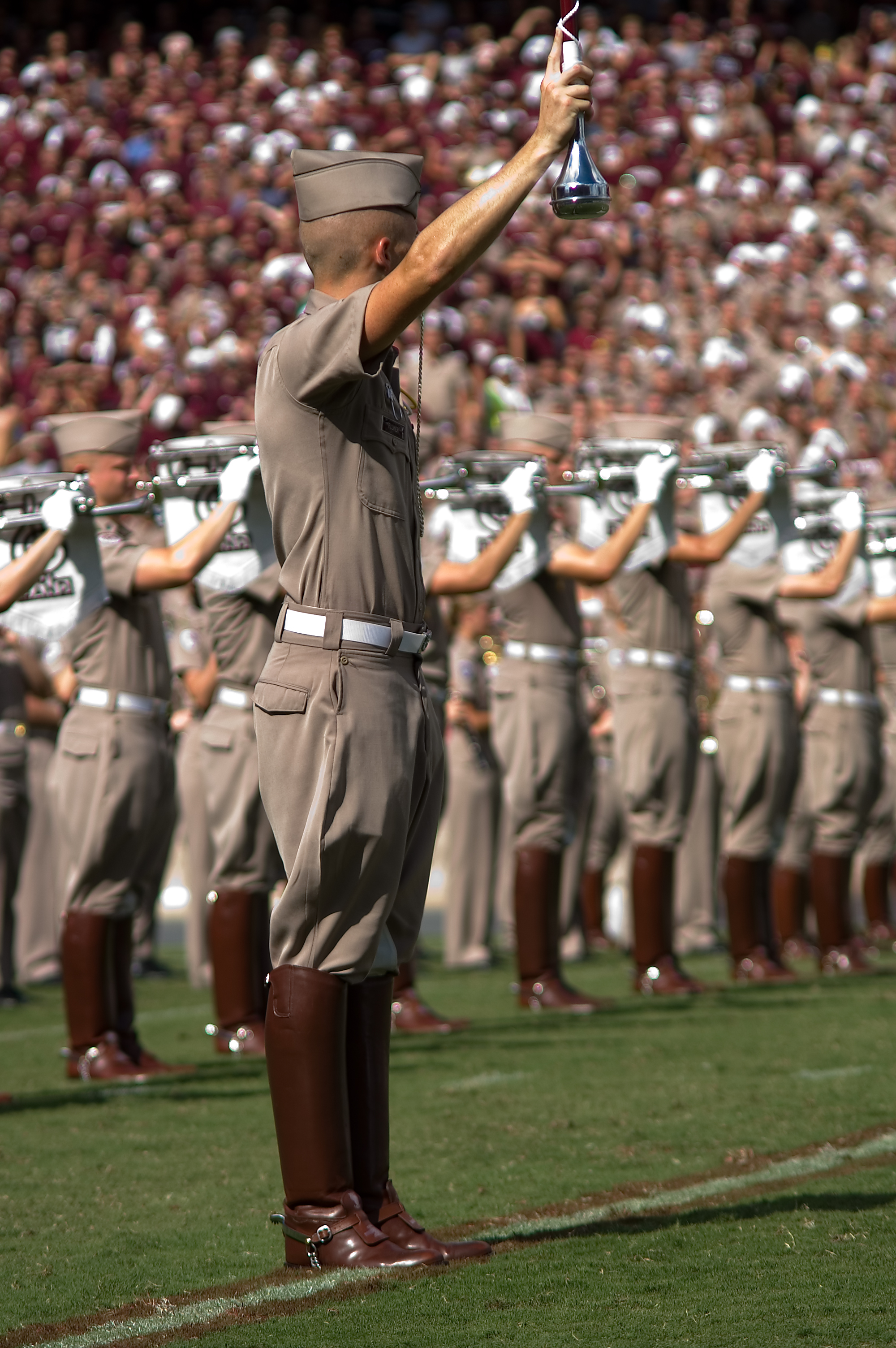 Fightin' Texas Aggie Band Drum Major, Fall Semester 2007